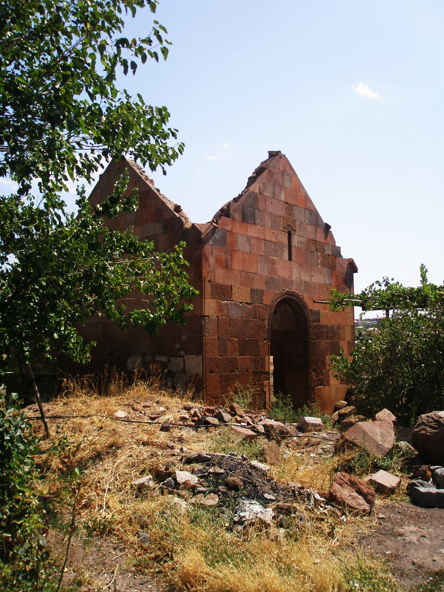 Tsiranavor Church of Ashtarak